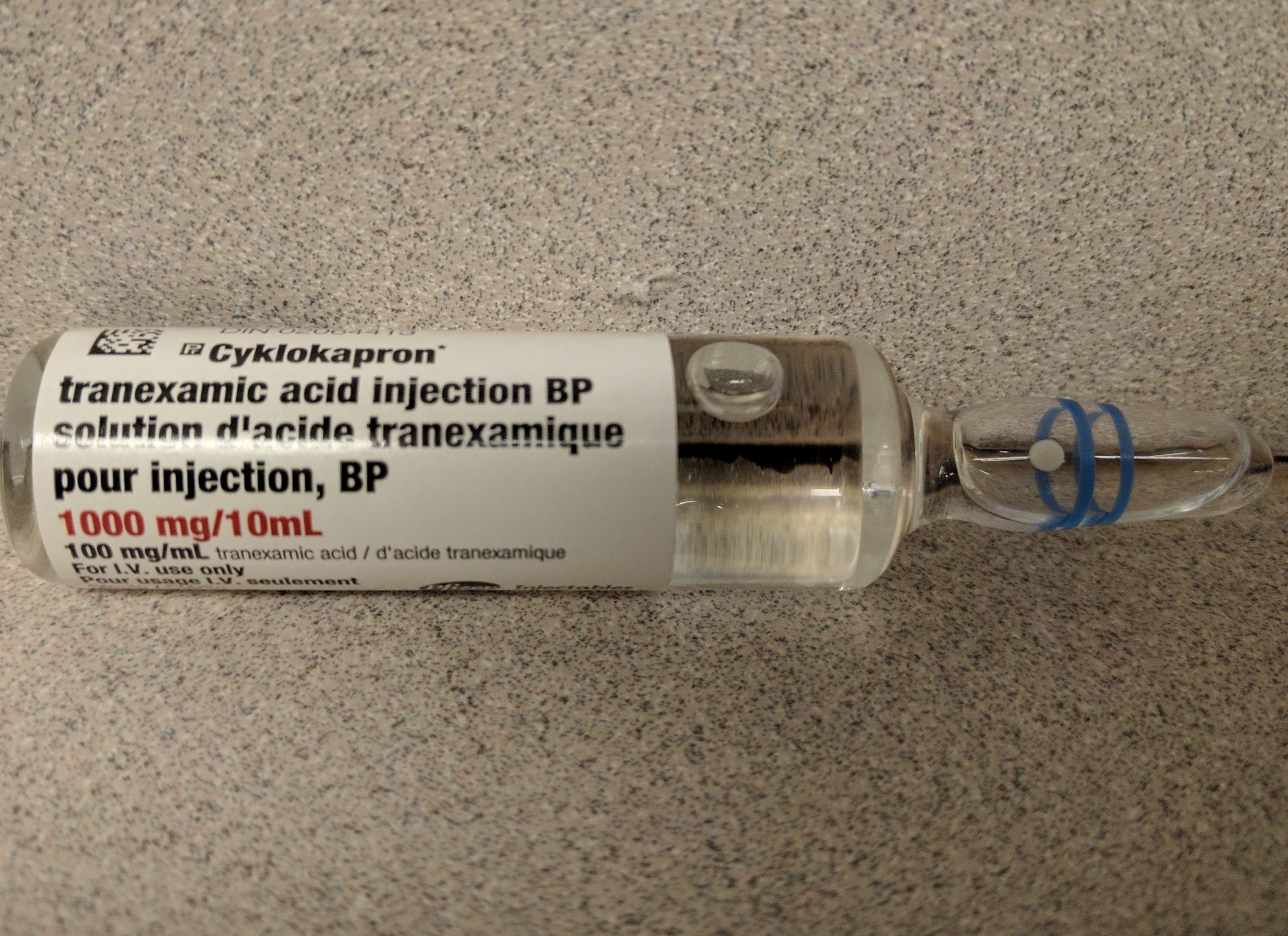 A vial of tranexamic acid